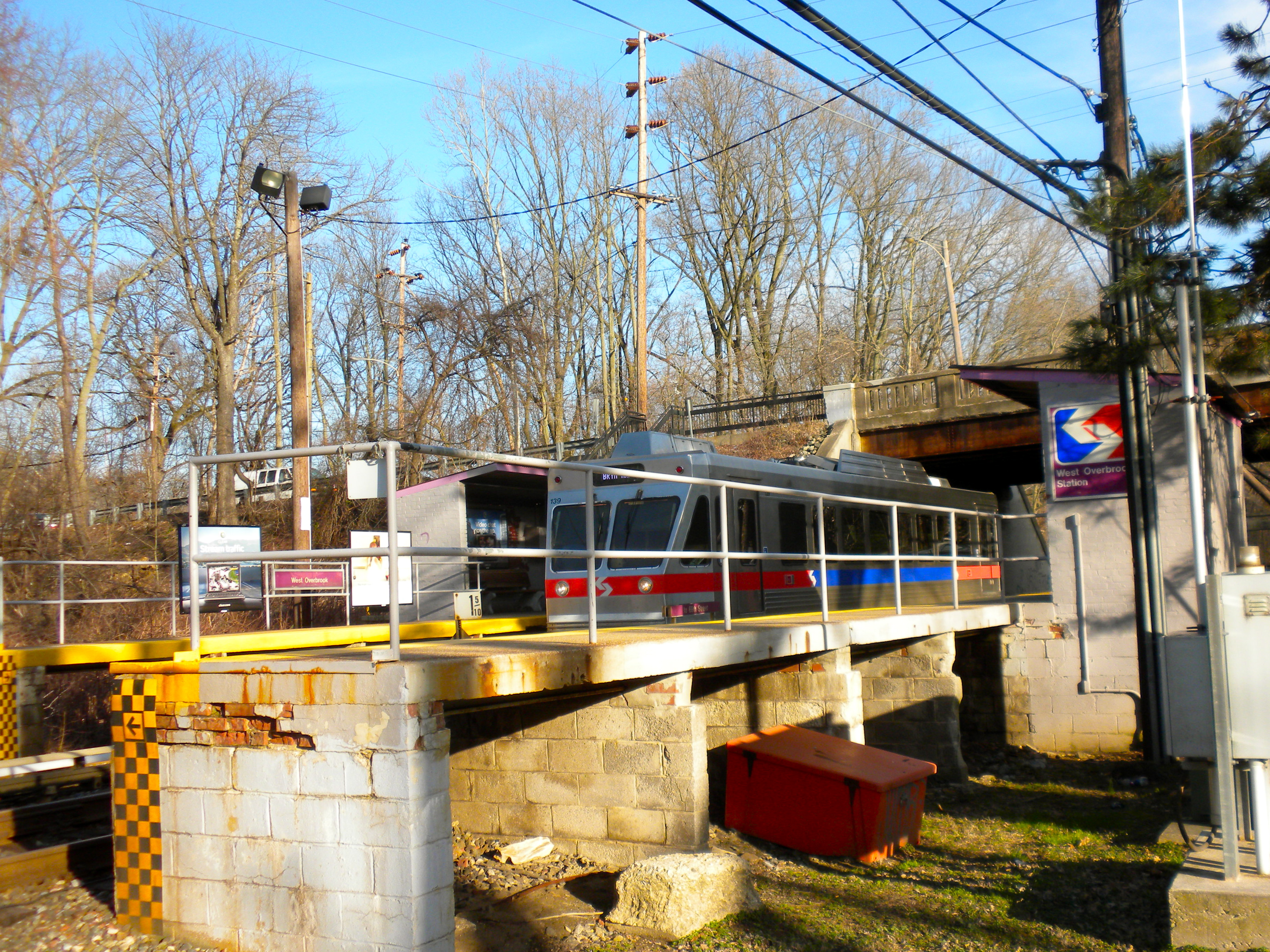 West Overbrook Station (Septa) on U.S. Route 1, aka City Line Road, just at the western border of Philadelphia, where the name of US 1 changes to Township Line Road. Fairly minor station